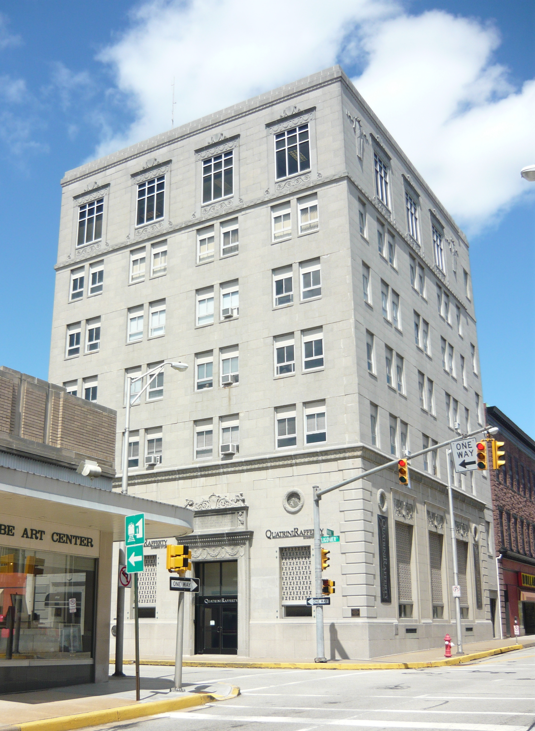 Citizens National Bank Building, also known as Mellon Bank Building, 816 Ligonier Street (corner of Main Street), Latrobe, Pennsylvania. Built in 1926. Architect was Bartholomew & Smith.